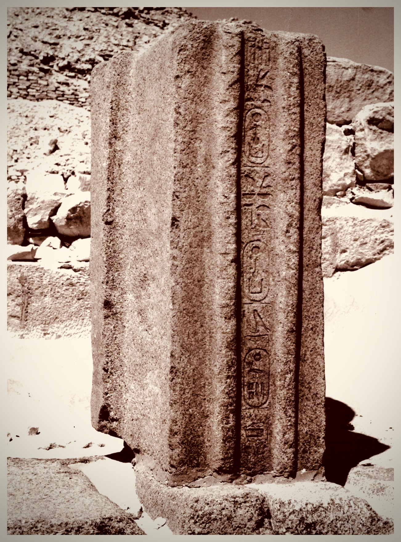 Pepi II. fragment of pylon in front of pyramide